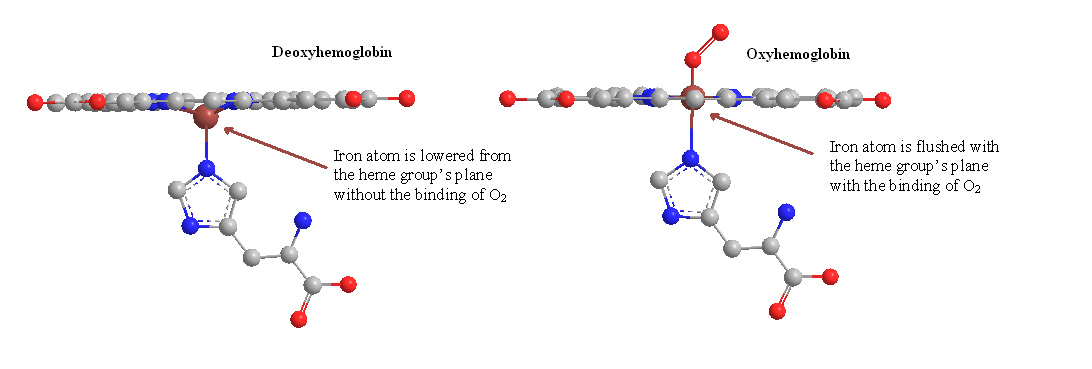 Showing the Iron's slight orientation changes from deoxyhemoglobin to oxyhyemoglobin.